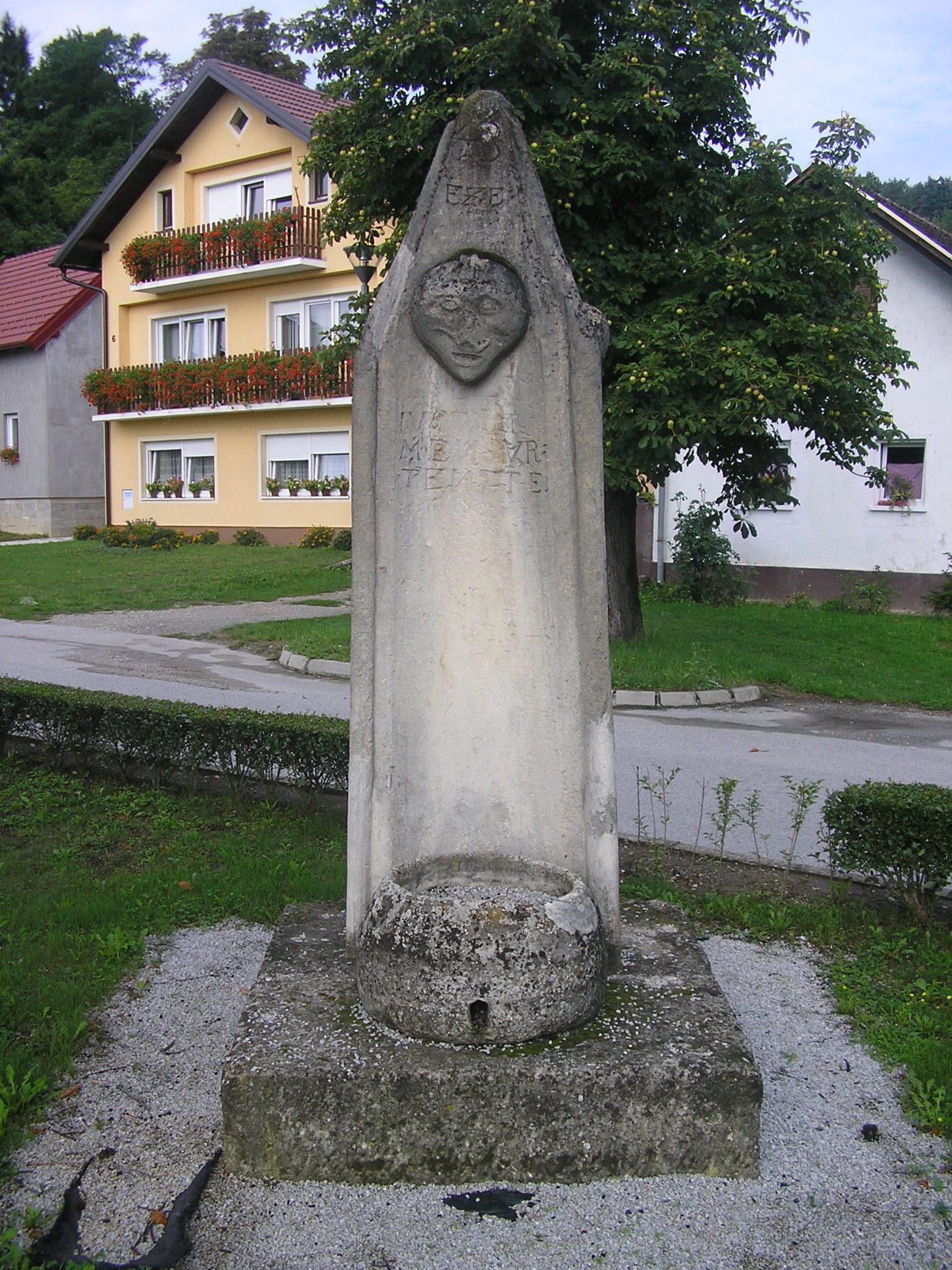 The pillory of shame in Vinica, Croatia